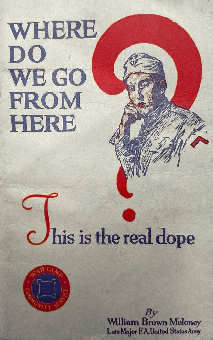 Front cover of book by William Brown Meloney, Where Do We Go From Here, handed out by U.S. War Department to veterans of World War I upon their discharge.